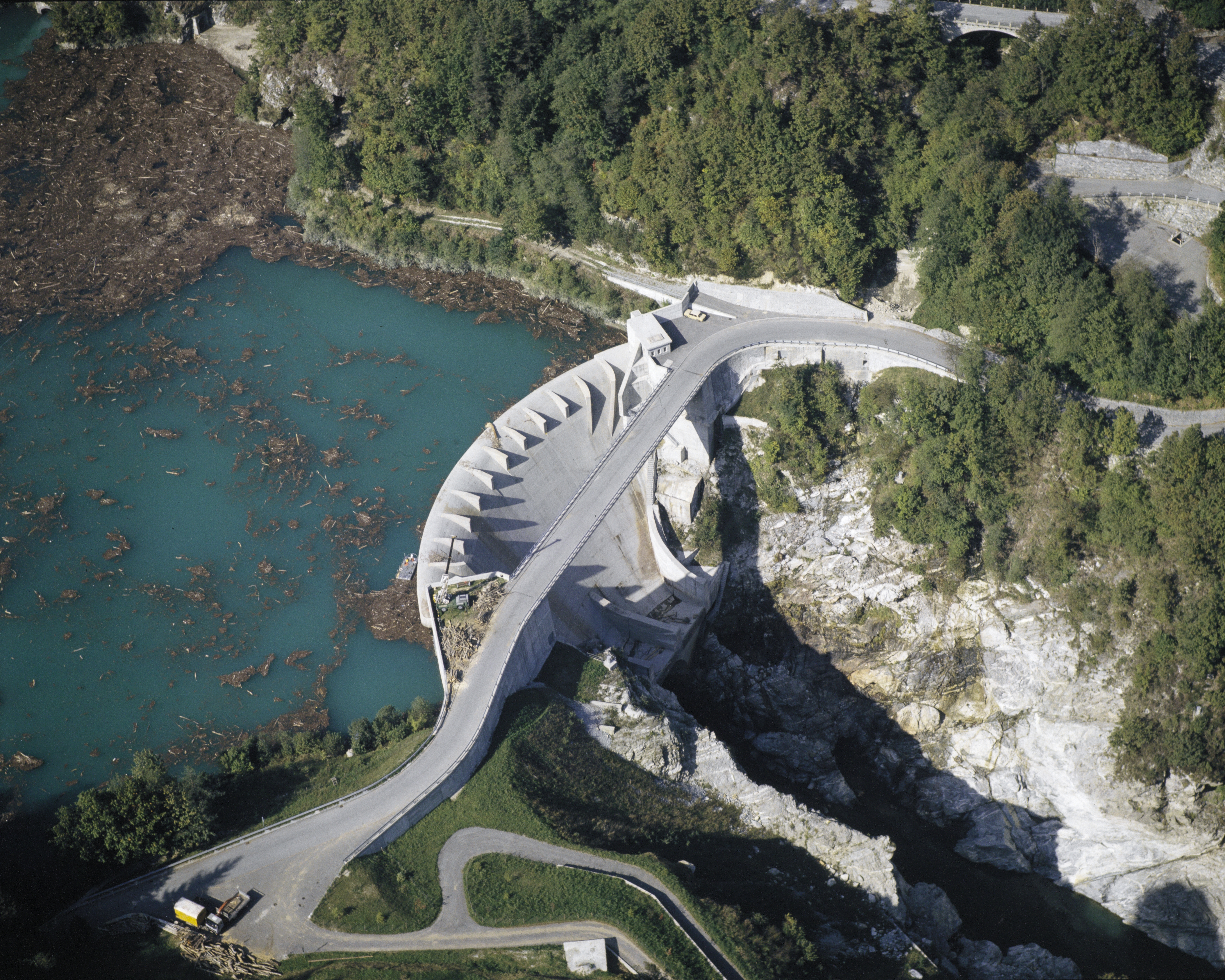 Aerial photograph of the Palagnedra dam.